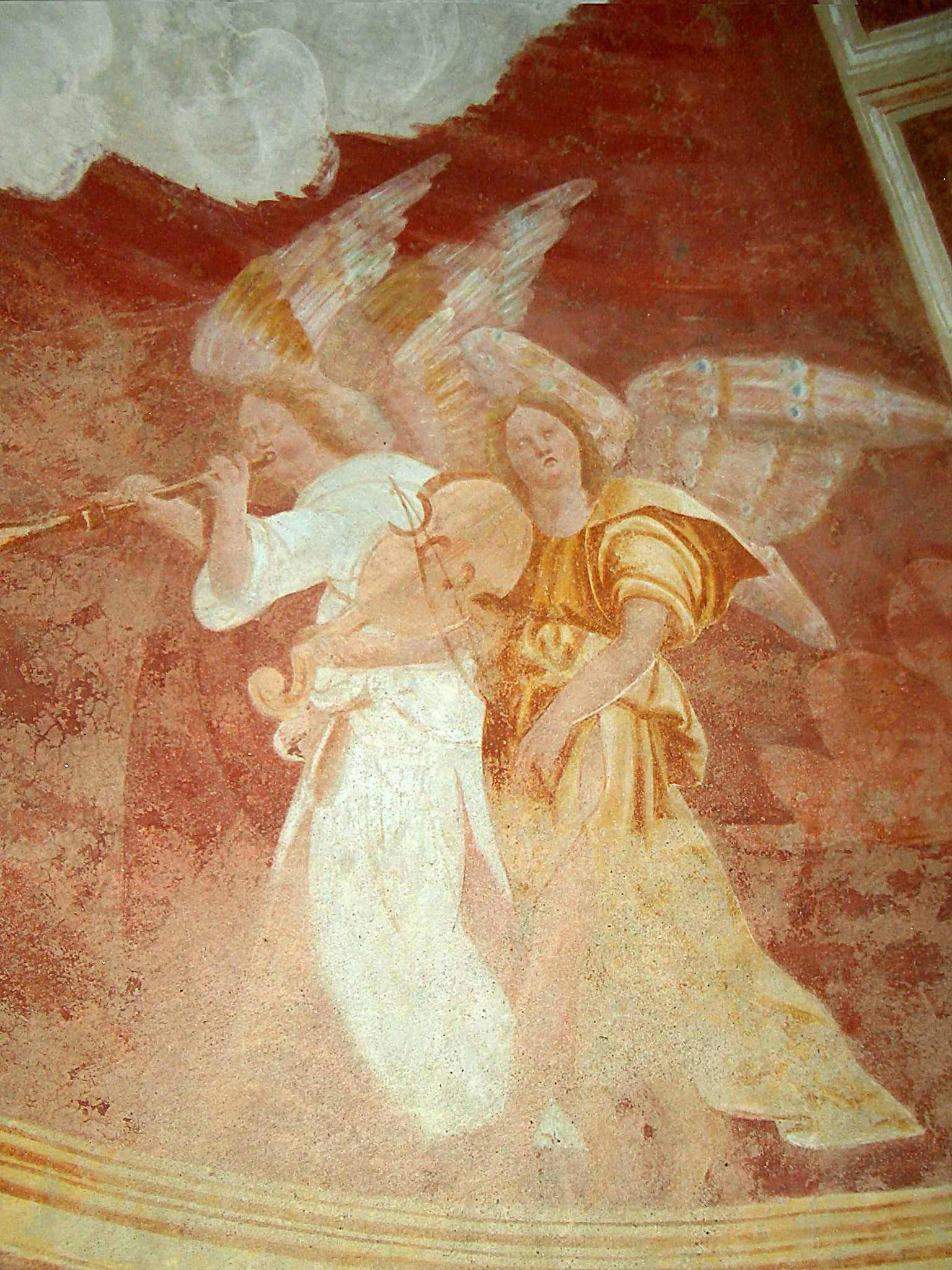 Follower of Gaudenzio Ferrari, Music-making angels, frescoes of the apse, XVI century, Bellinzago Novarese - Cavagliano, Chiesa di San Vito